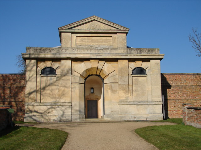 To Let This curious building is owned by The Landmark Trust. It used to be a temporary home for minor offenders, hence the name chiselled into the parapet : "HOUSE OF CORRECTION". For more images and a plan, You might even want to purchase the Trusts's brochure which has several furnished follies and fine buildings that you can also rent on a short term basis - even as short as a day.